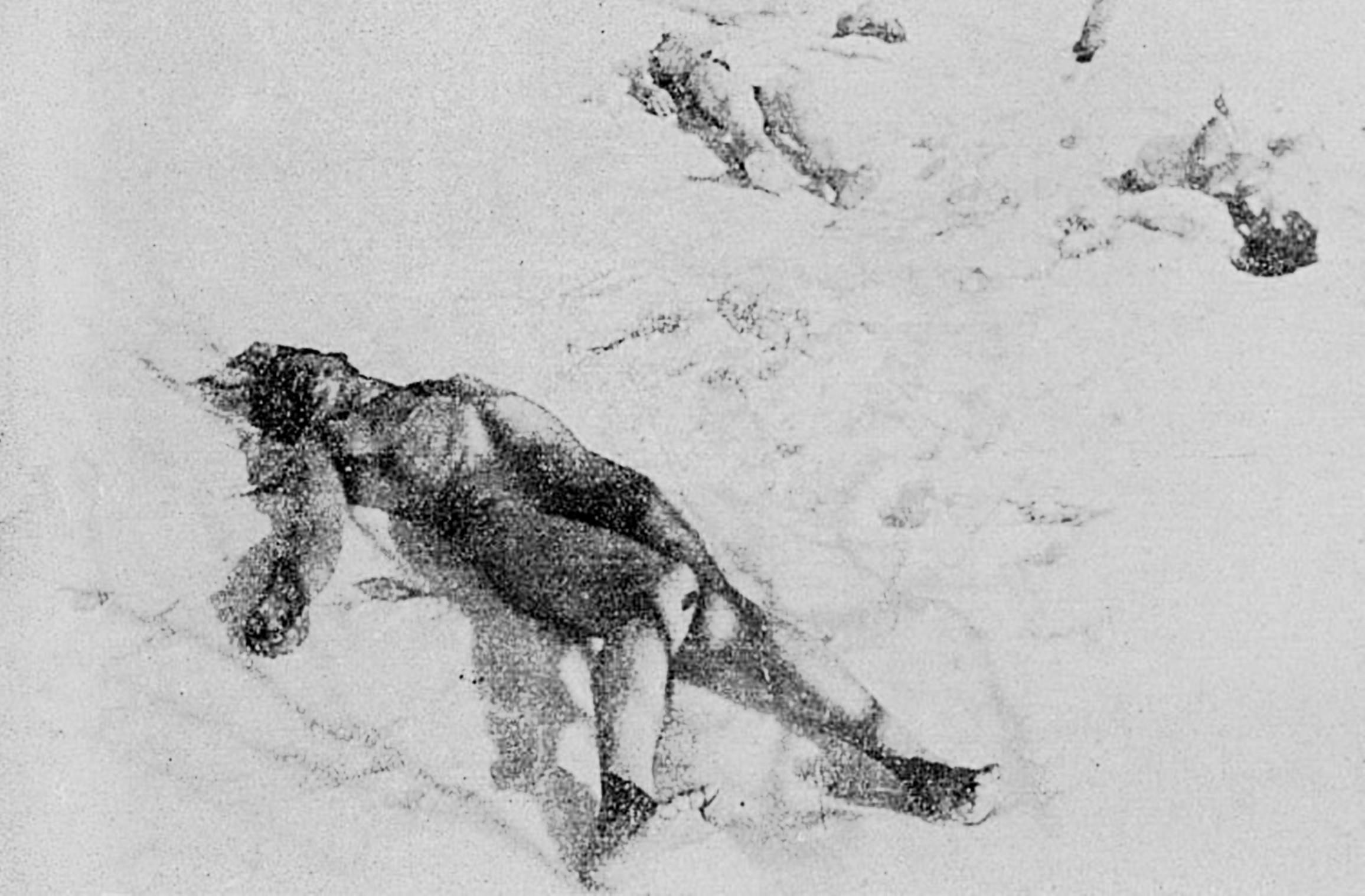 The stripped bodies of Jewish Romanian victims, discarded in the snow at Jilava, on the banks of Sabar River. Such incidents crowned the days-long Bucharest Pogrom and Legionary Rebellion.